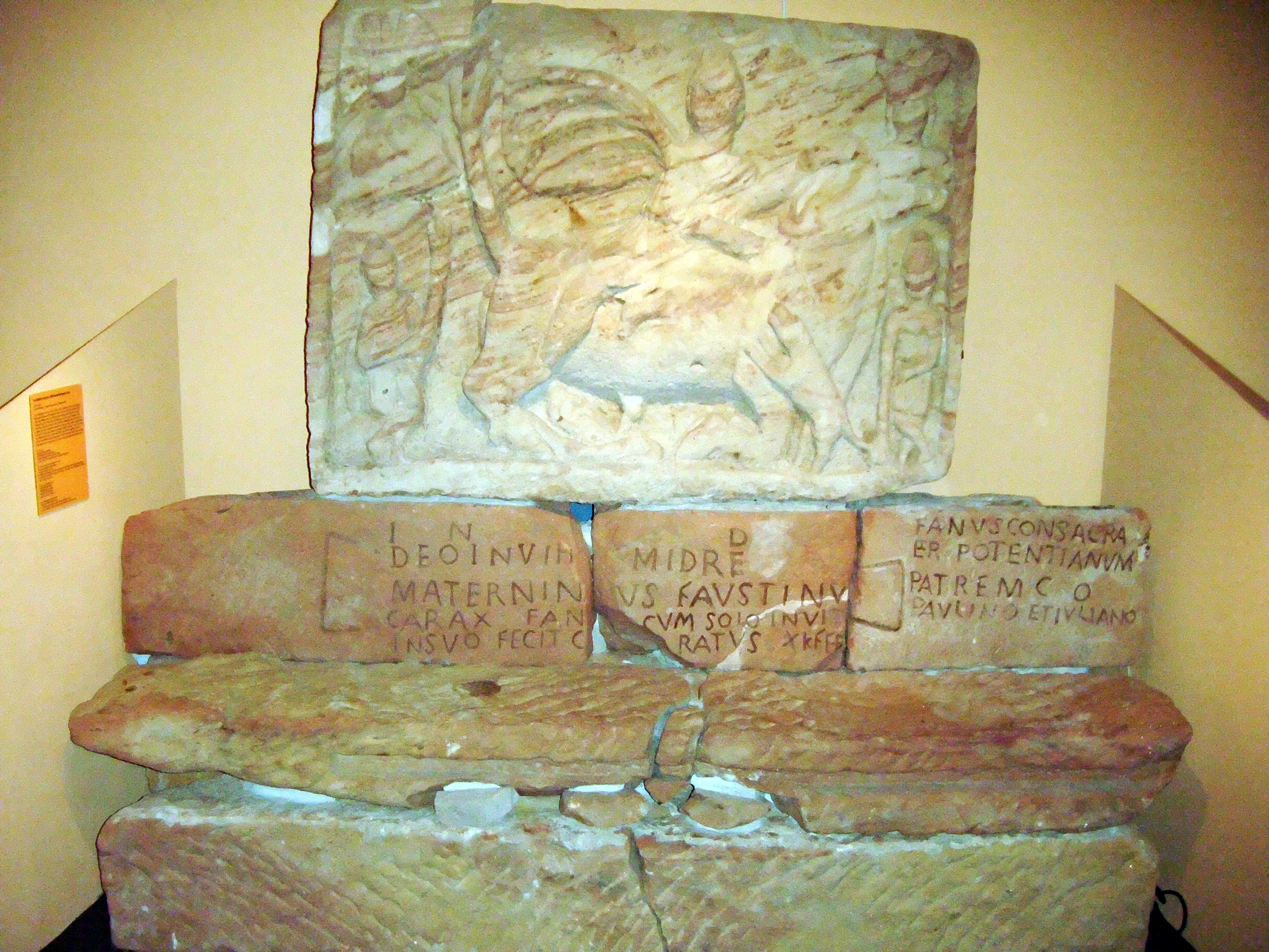 Mithras-Heiligtum aus Gimmeldingen, im Historischen Museum der Pfalz, Speyer